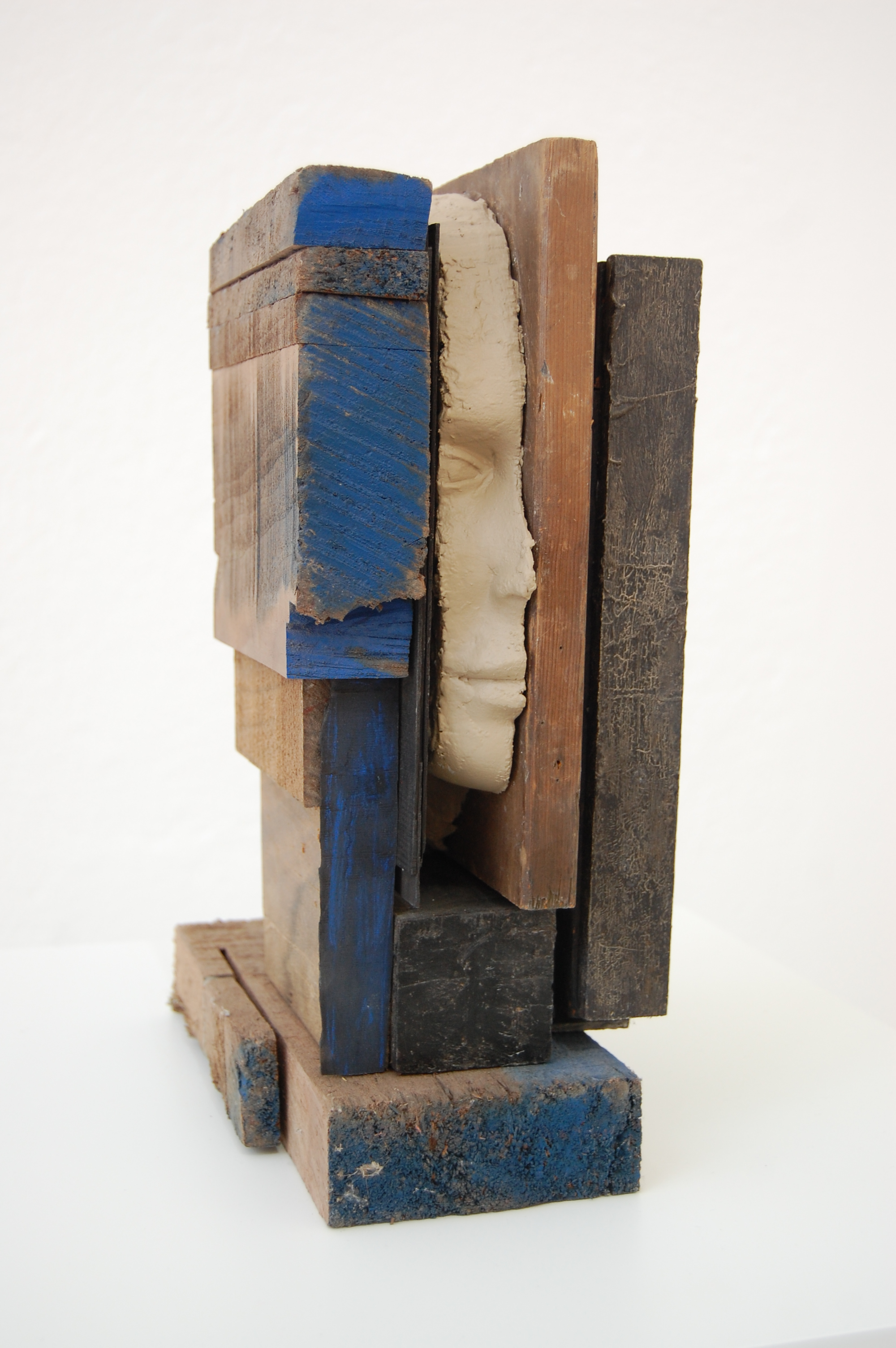 Mark Manders, 2013